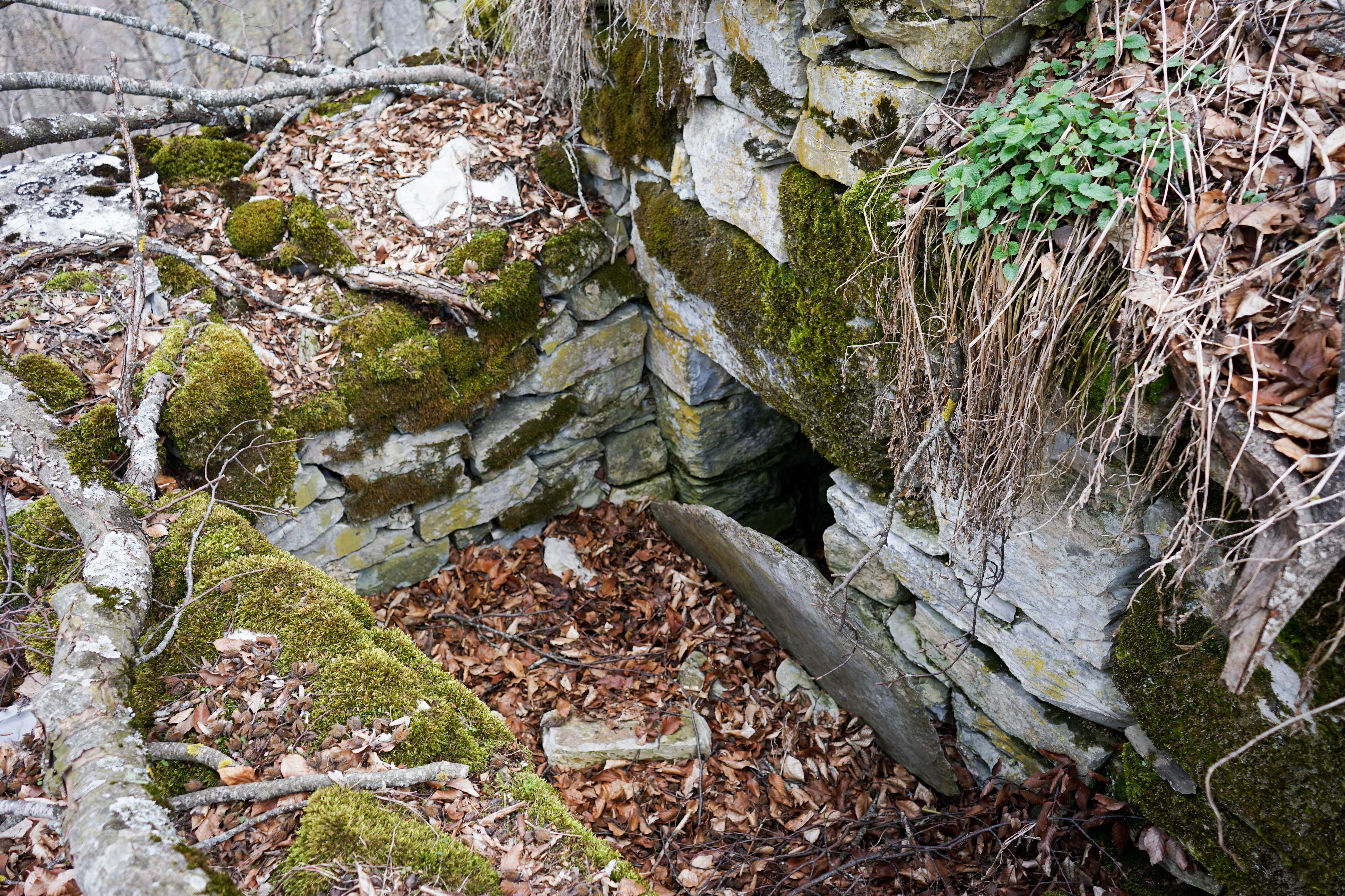 Saint George Church of Mzetsveri (IX-X cc.), Buchaani, Mtskheta-Mtianeti, Georgia